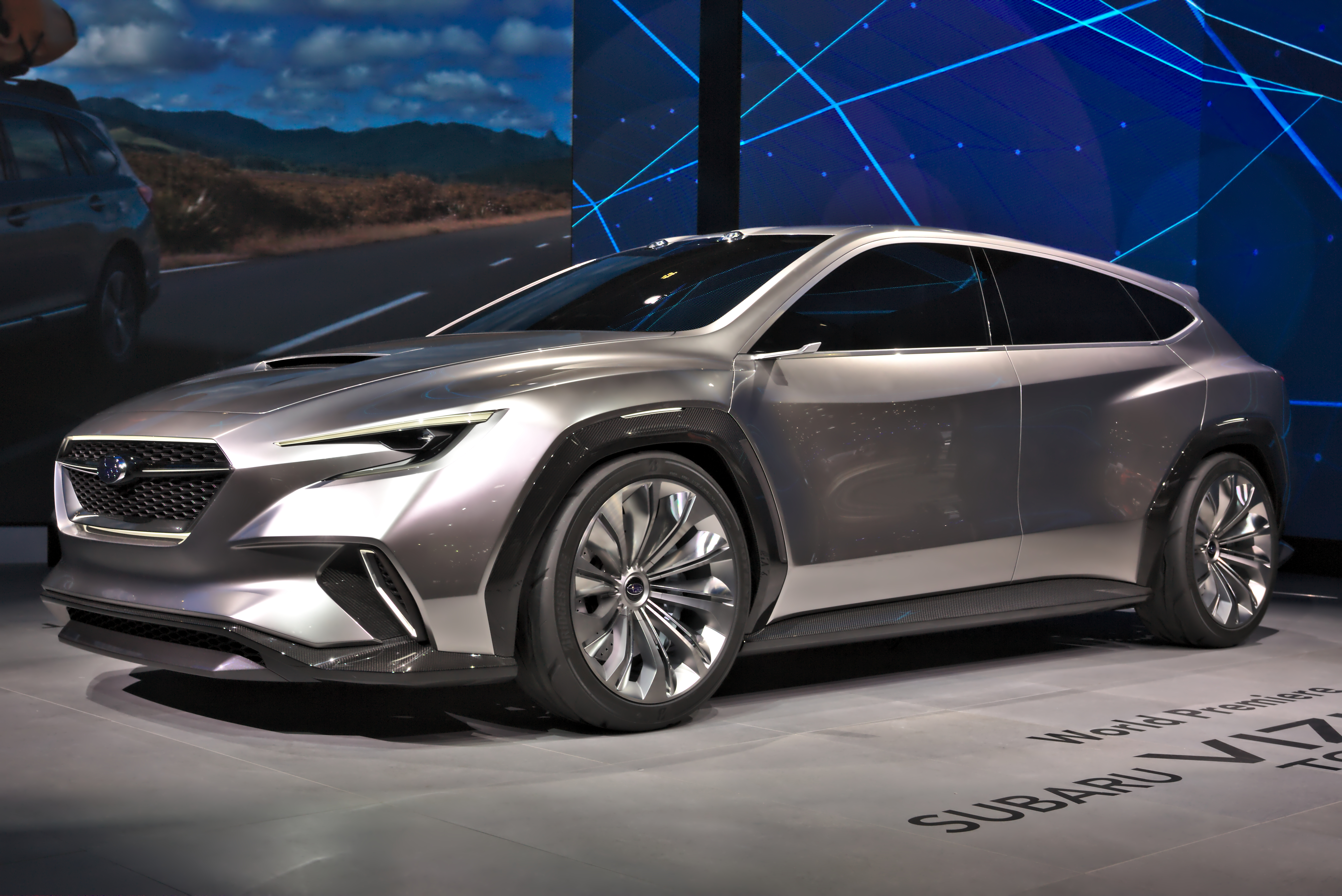 Subaru Viziv Concept Tourer at Geneva Motorshow 2018